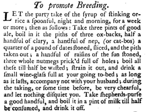 Recipe "To Promote Breeding" in Eliza Smith's The Compleat Housewife, 1739 edition.